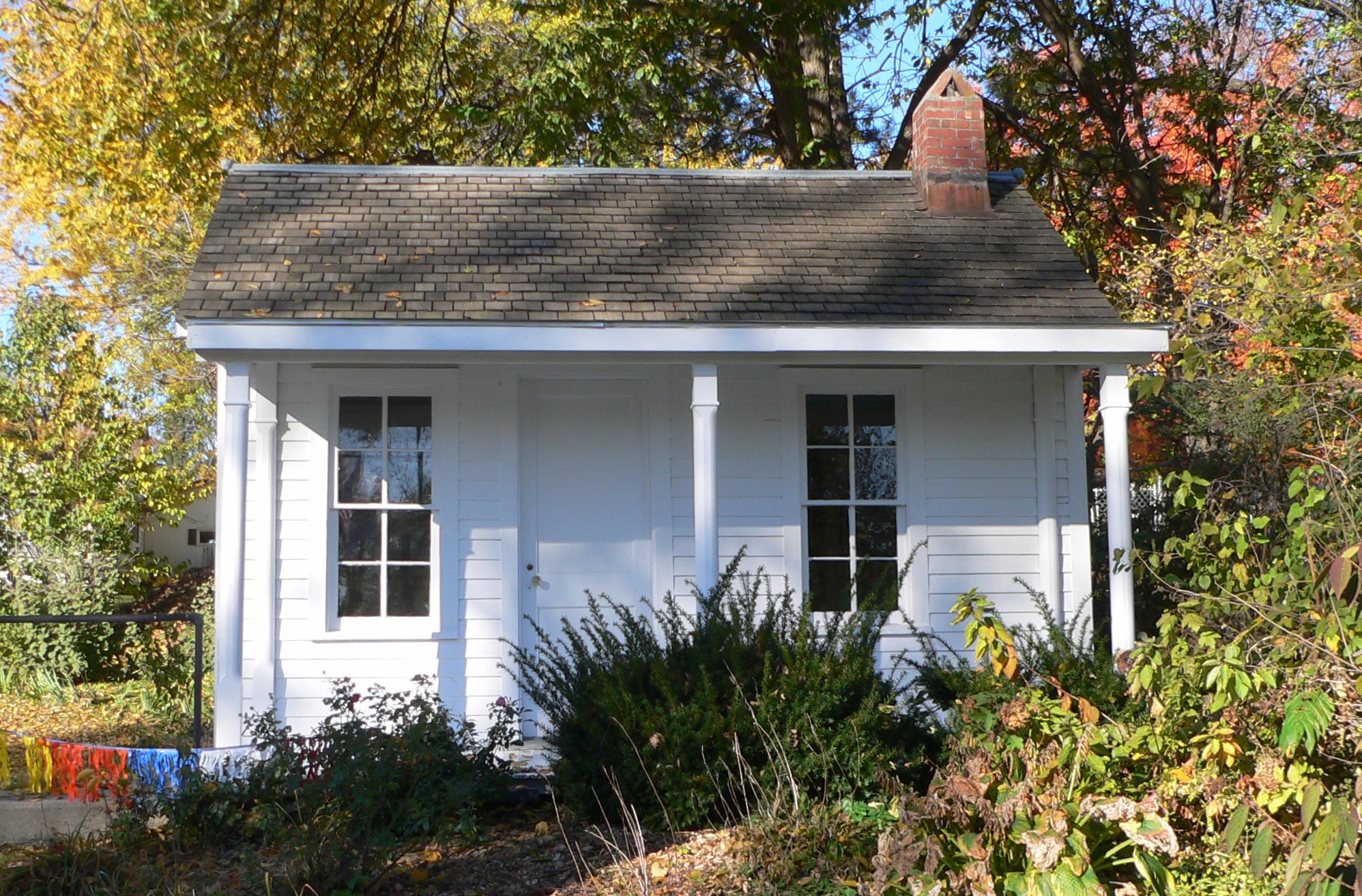 John G. Neihardt study at John G. Neihardt State Historic Site in Bancroft, Nebraska; seen from the east. The study is listed in the National Register of Historic Places.